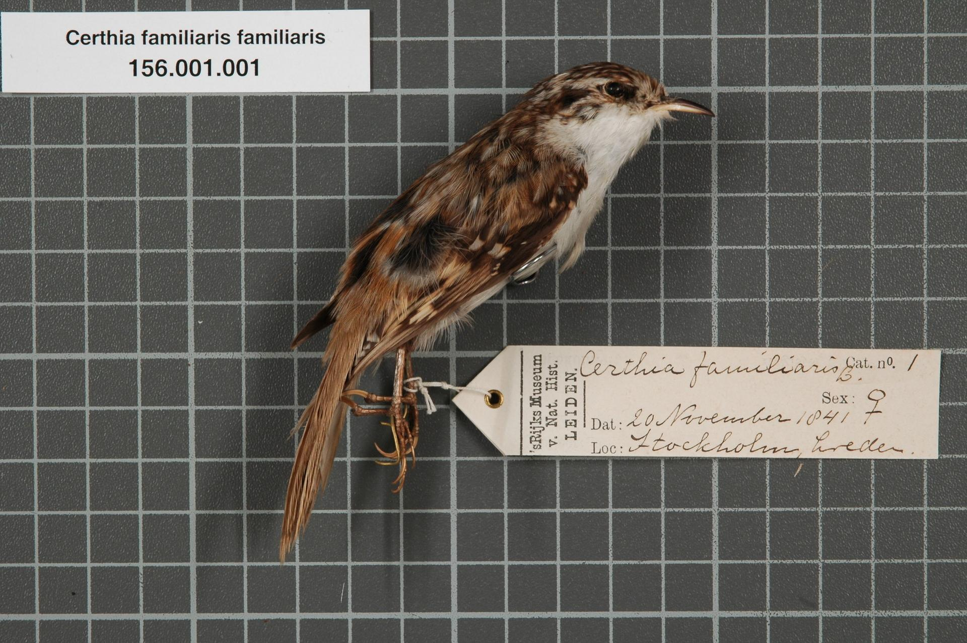 Certhia familiaris familiaris Linnaeus, 1758